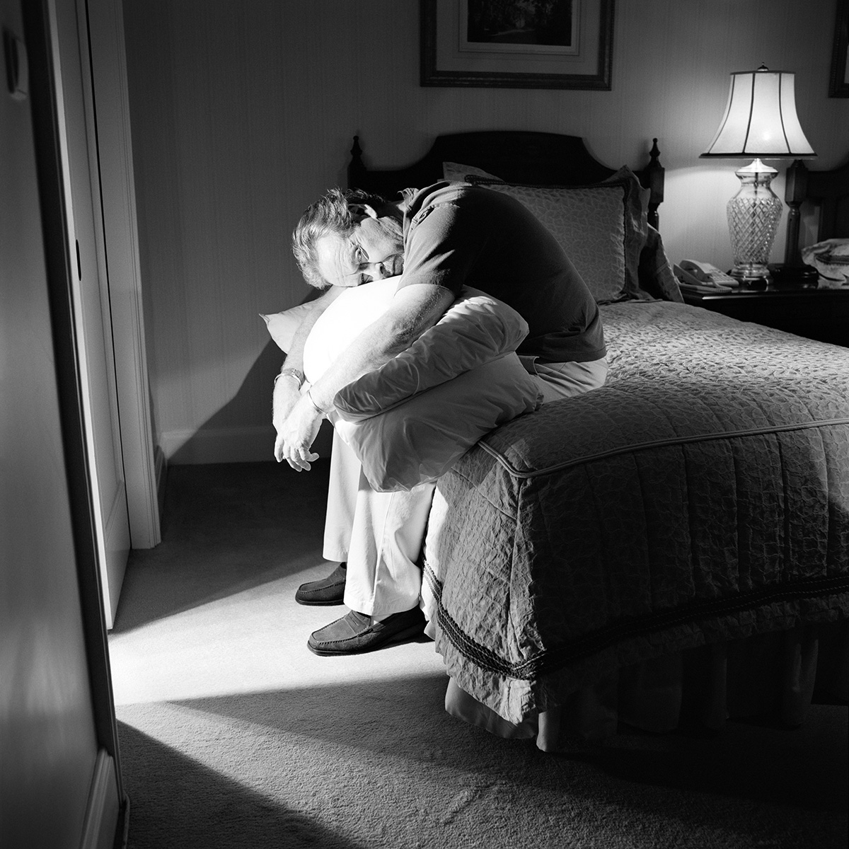 Ridley Scott portrayed by Oliver Mark, Berlin 2005